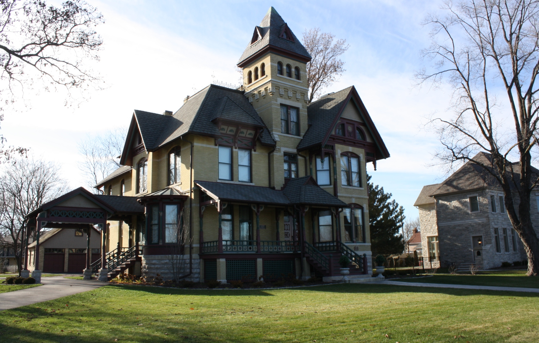 The Henry Sherry House in Neenah, Wisconsin. It is listed on the National Register of Historic Places.